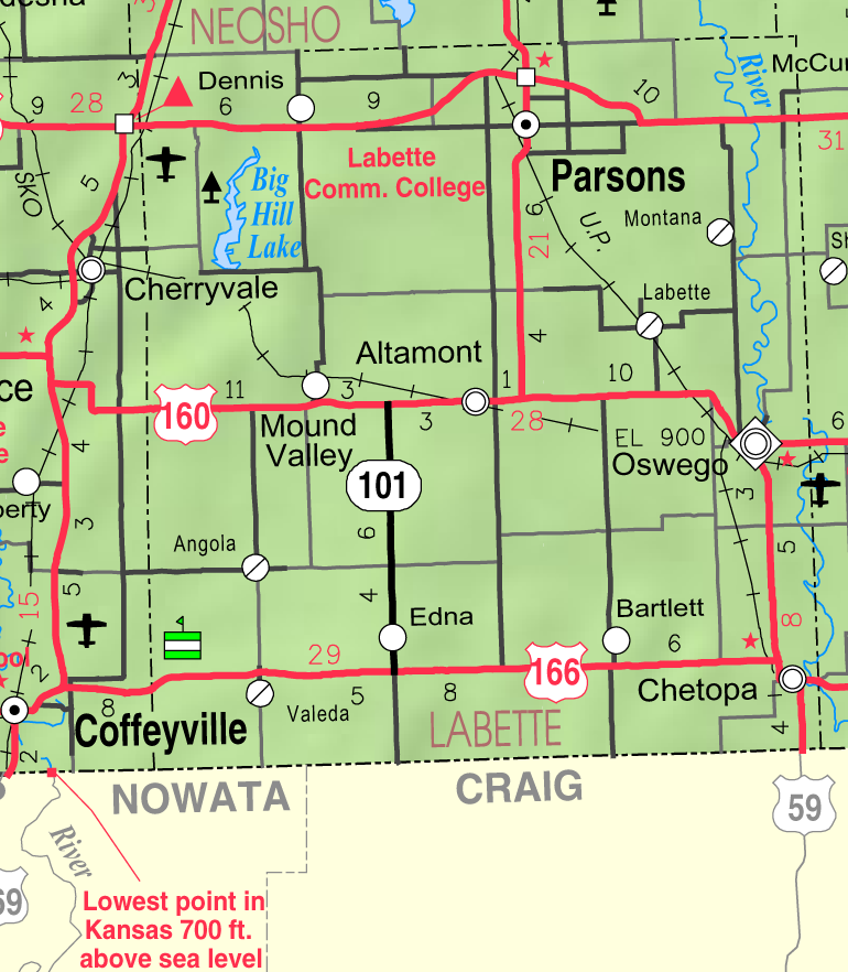 This map of Labette County, Kansas, USA, is copied at a resolution of 300 pixels/inch from the original PDF file.